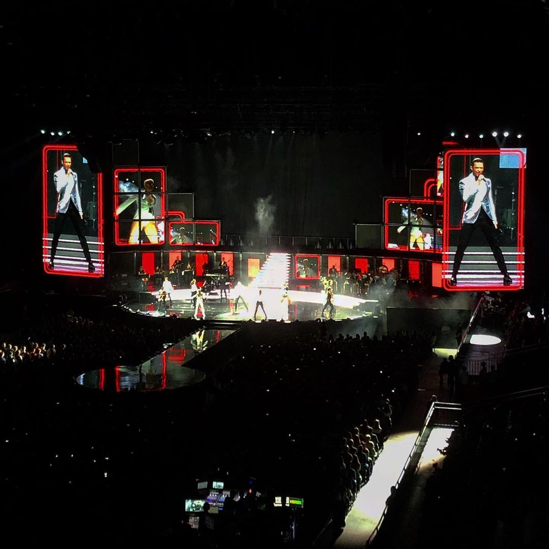 The European leg of "The Man. The Music. The Show." tour